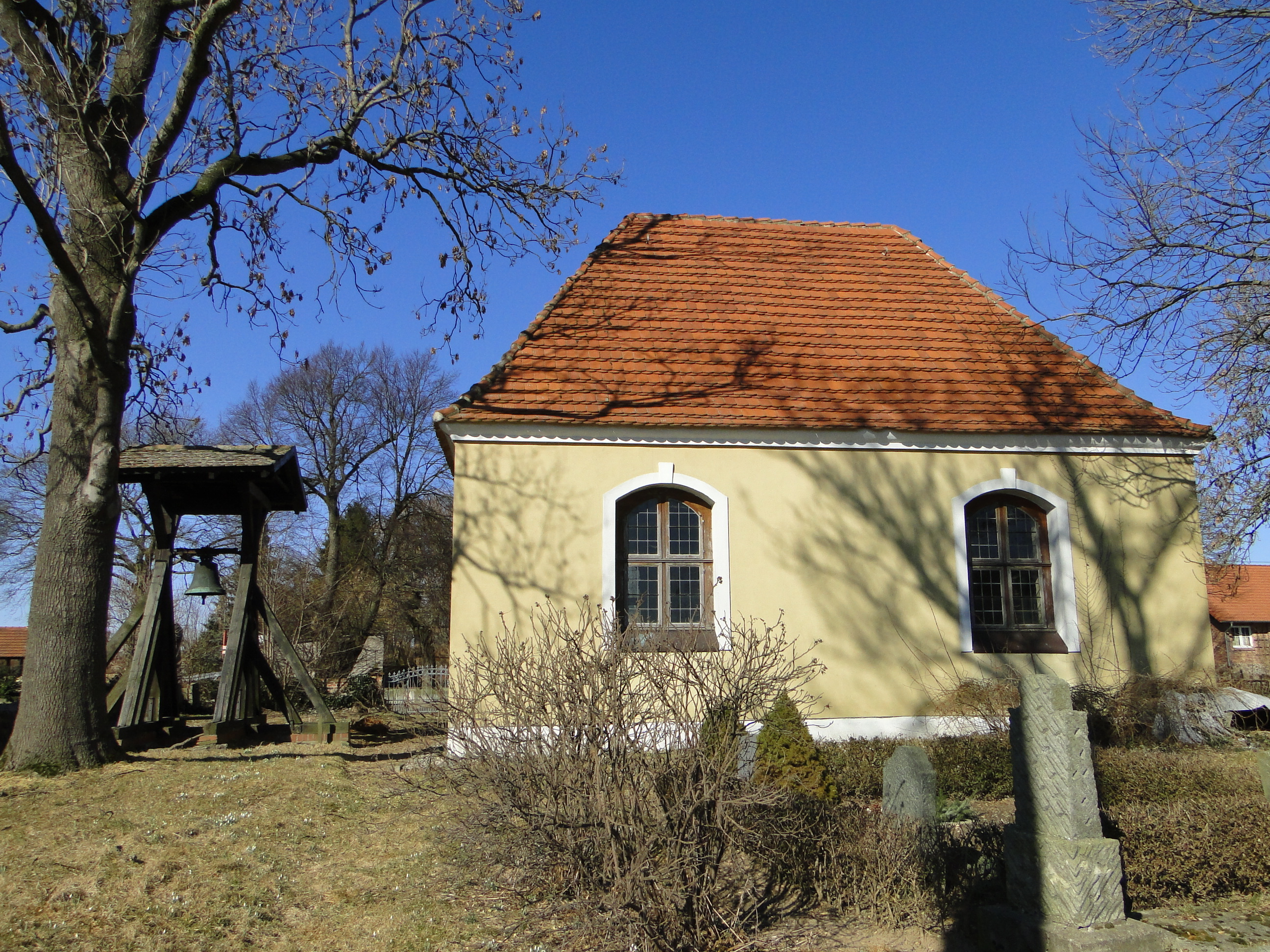 Church in Sabel, district Mecklenburg-Strelitz, Mecklenburg-Vorpommern, Germany